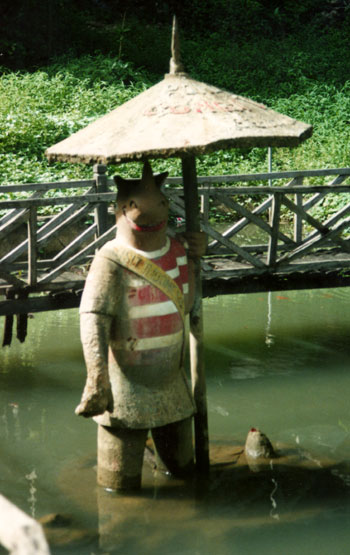 The Rhino was the mascot of 'Visit Indonesia Year' 1992. This example is from Bantimurung, South Sulawesi. Photo taken by Bwmodular